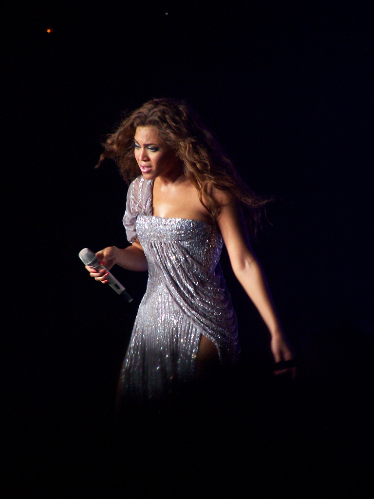 Beyoncé - Concert in Barcelona in 2007